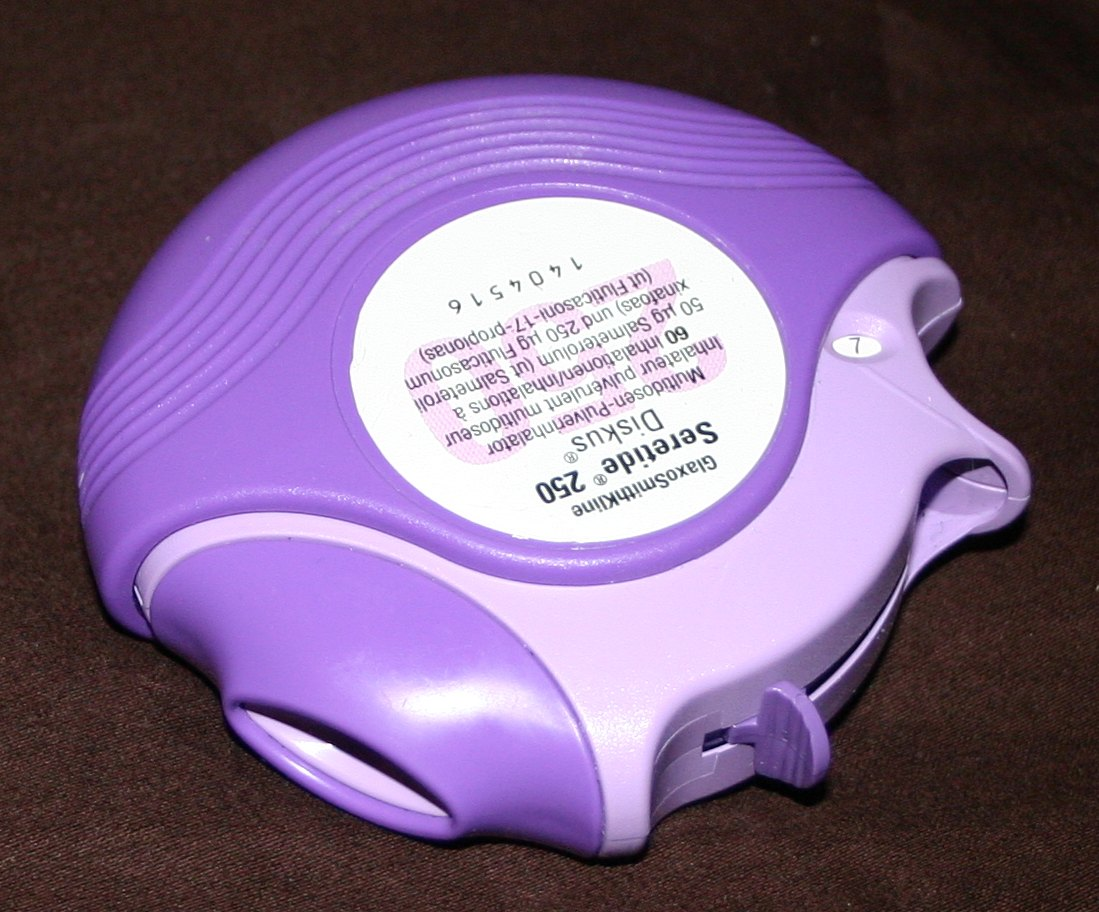 This image is an original photograph of the Diskus device, taken by myself, Erik Bruchez, on May 7, 2006.